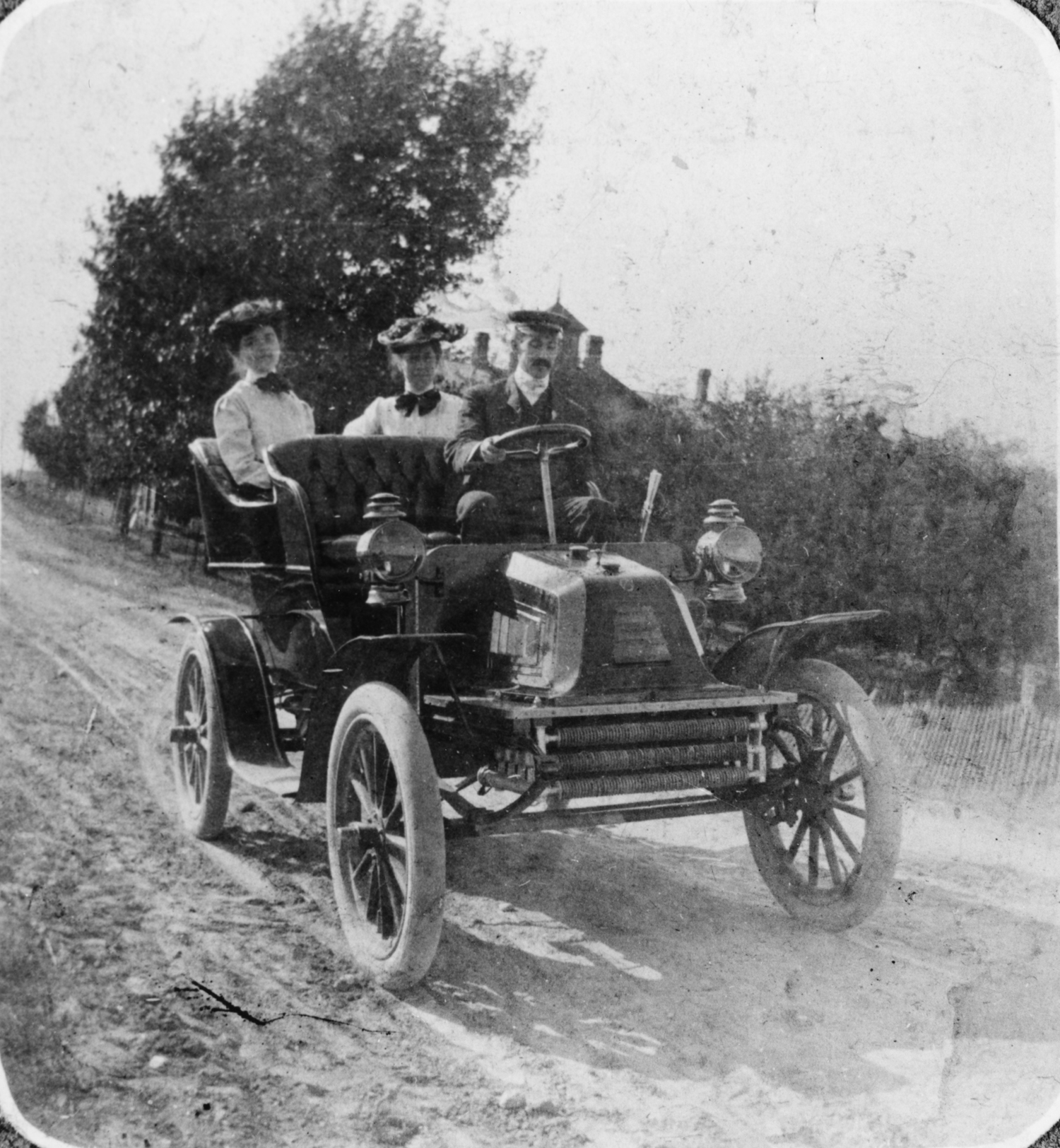 Smithsonian Web ID #: WEB13510-2013